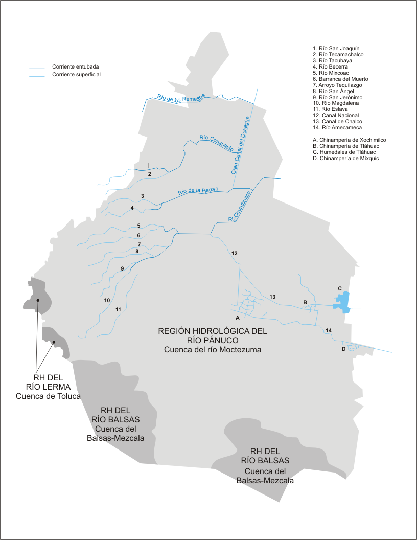 Hydrology map of Mexico City